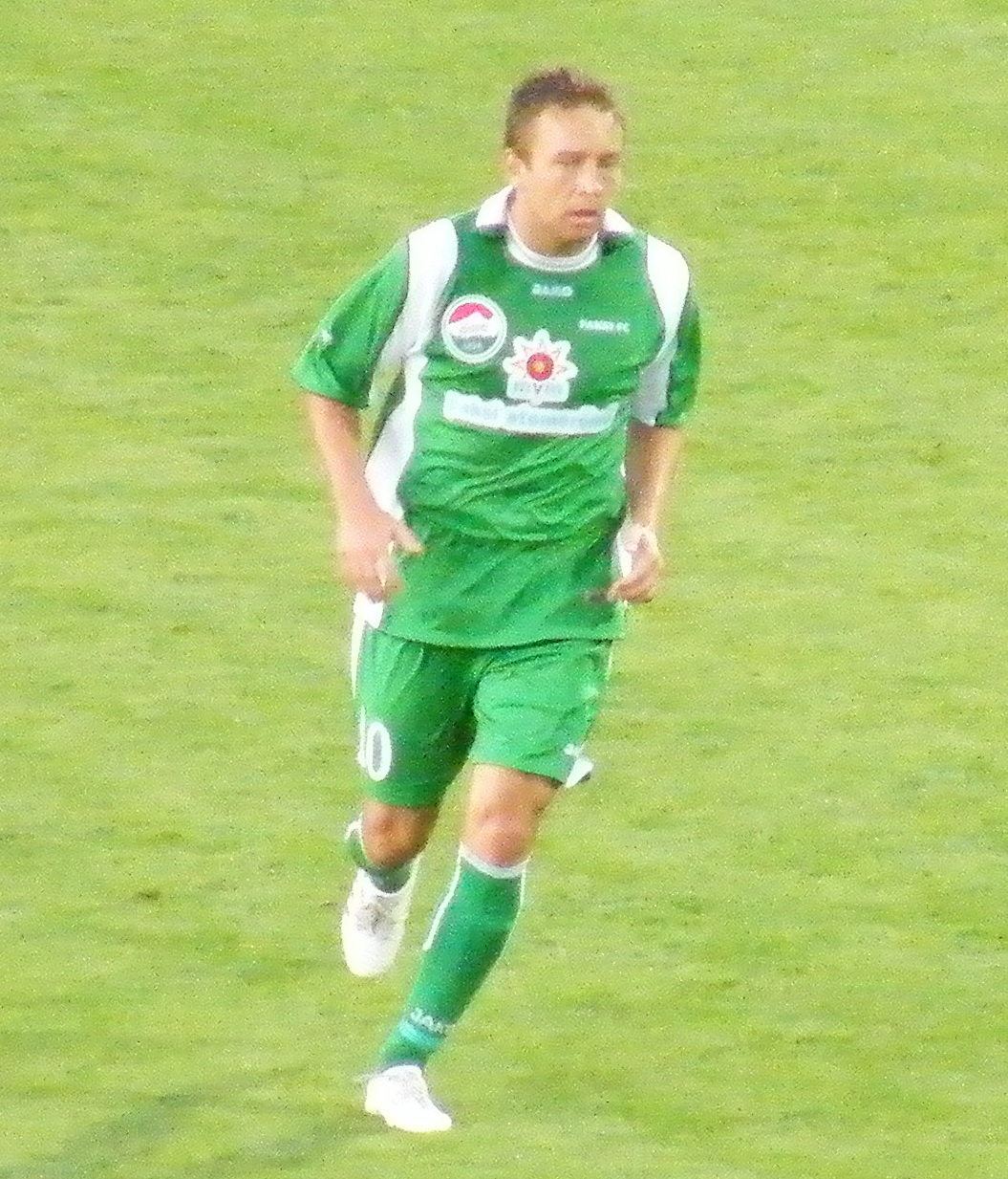 Tamás Kiss Hungarian association football player.